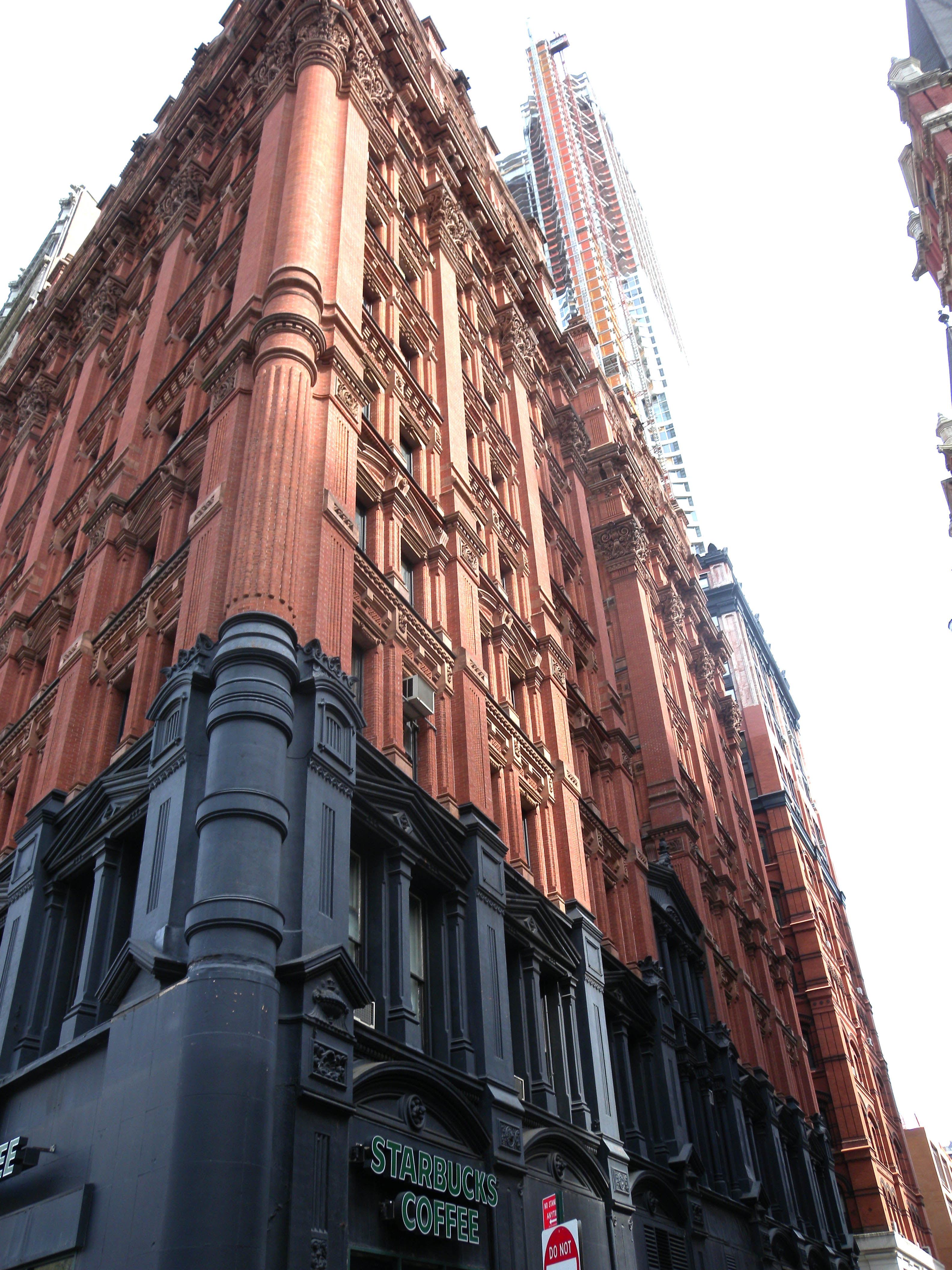 Looking east across Park Row and Beekman at Potter Building on a sunny midday. ZIP 10003.